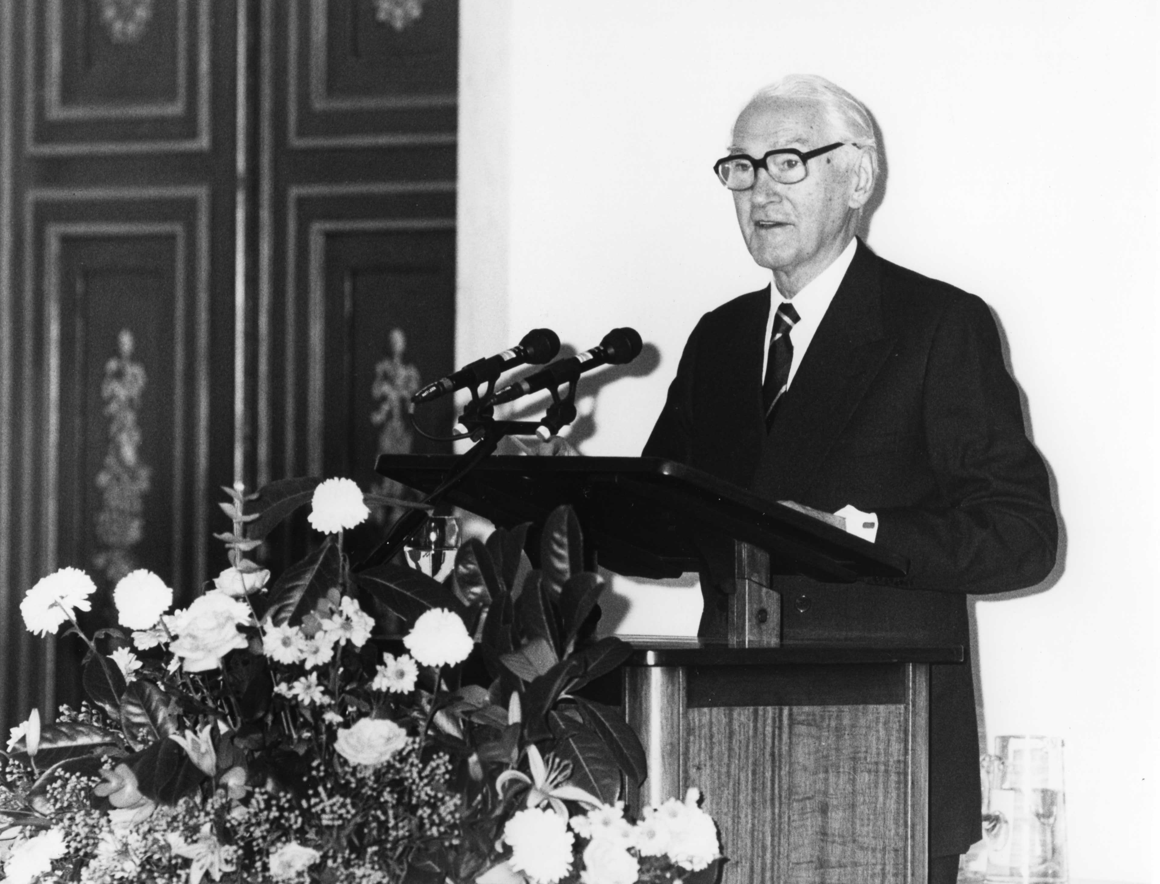 Niall MacDermot (Secr.-Gen. International Commission of Jurists), acceptance speech Erasmus Prize 1989 (the Netherlands). Photograph: Courtesy of the Praemium Erasmianum Foundation.